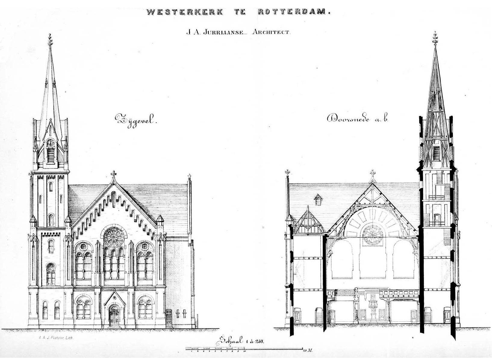 J.A. Jurriaanse. Westerkerk, Kruiskade, Rotterdam, side elevation, section.